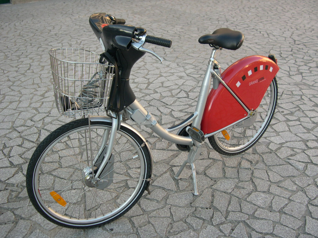 Un Velo'V, in Lyon (France)